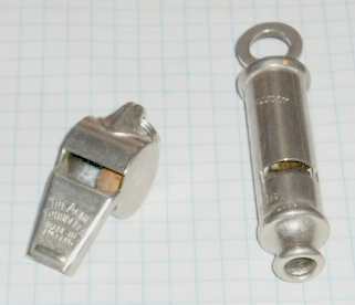 Acme Thunderer and Metropolitan police whistles in the submitter's collection.